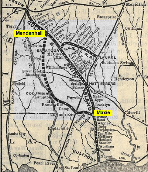 Gulf & Ship Island Railroad loop connecting Maxie, Mississippi to Mendenhall, Mississippi